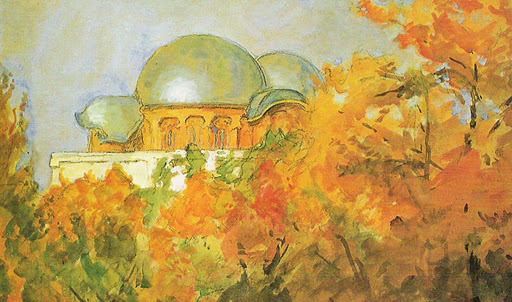 water color of first Goetheanum